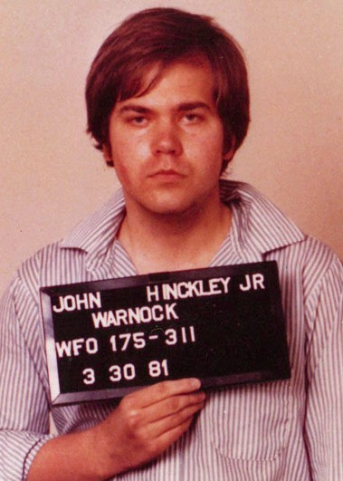 John Hinckley, Jr. Mugshot (cropped)